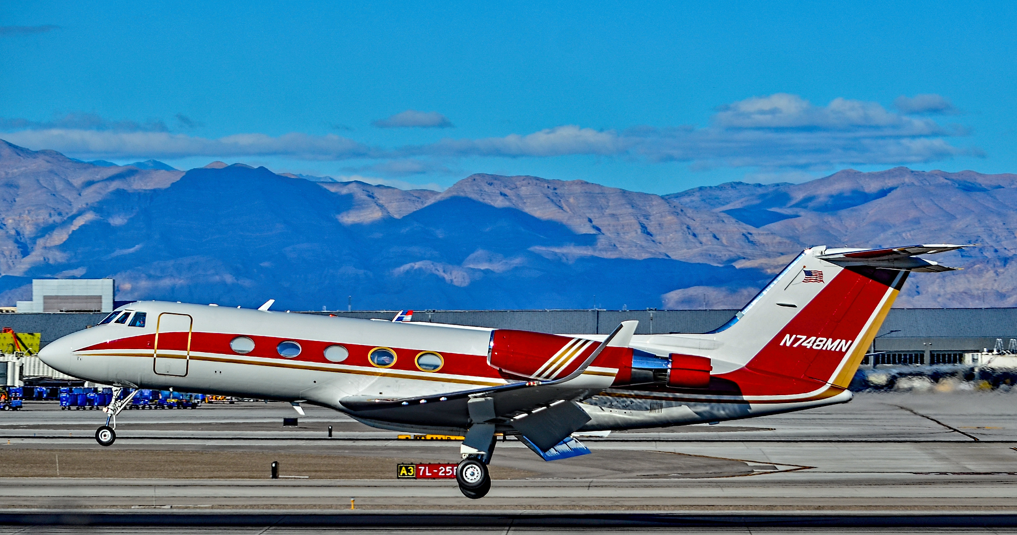 Las Vegas - McCarran International Airport (LAS / KLAS) USA - Nevada December 2, 2016 Photo: Tomás Del Coro